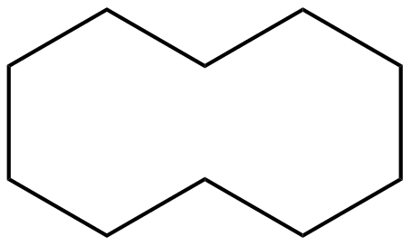 Cyclodecane structure